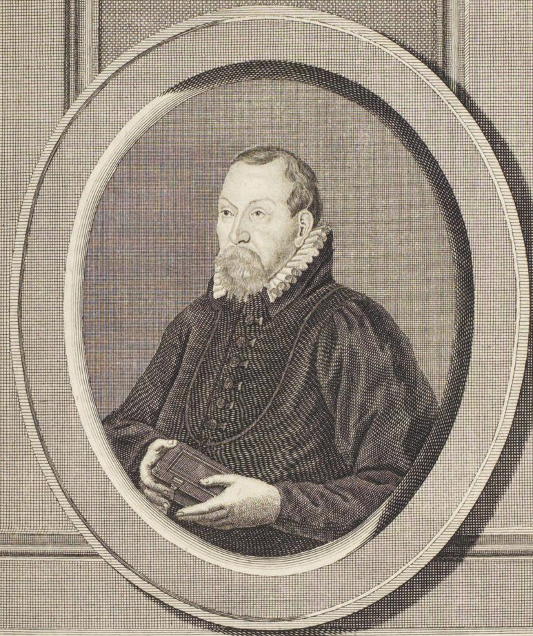 Engraved portrait of Johannes Caselius, in: in: Monumenta inedita rerum Germanicarum praecipue Cimbriacarum et Megapolensium : quibus varia antiquitatum, historiarum, legum iuriumque Germaniae, speciatim Holsatiae et Megapoleos vicinarumque regionum argumenta illustrantur, supplentur et stabiliuntur ; cum tabulis aeri incisis / e codicibus ... studuit ... et cum praefatione instruxit Ernestus Joachimus de Westphalen .. Band 3, Lipsiae: Martin 1741